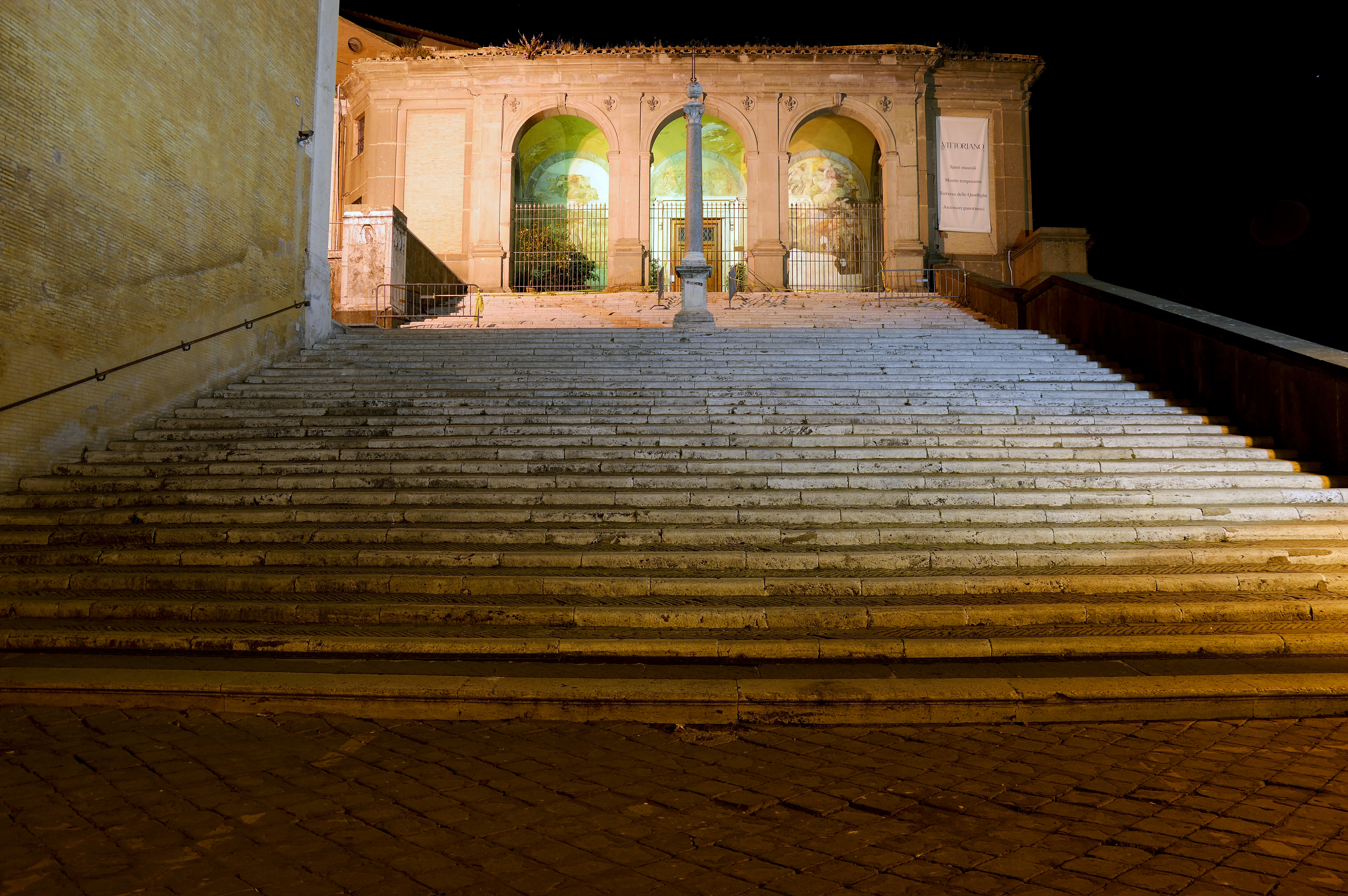 Sacristy of Santa Maria in Aracoeli (Rome)